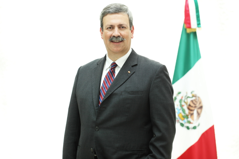 Ambasador of Mexico in Berlin